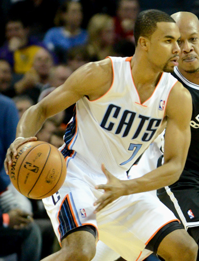 Ramon Sessions